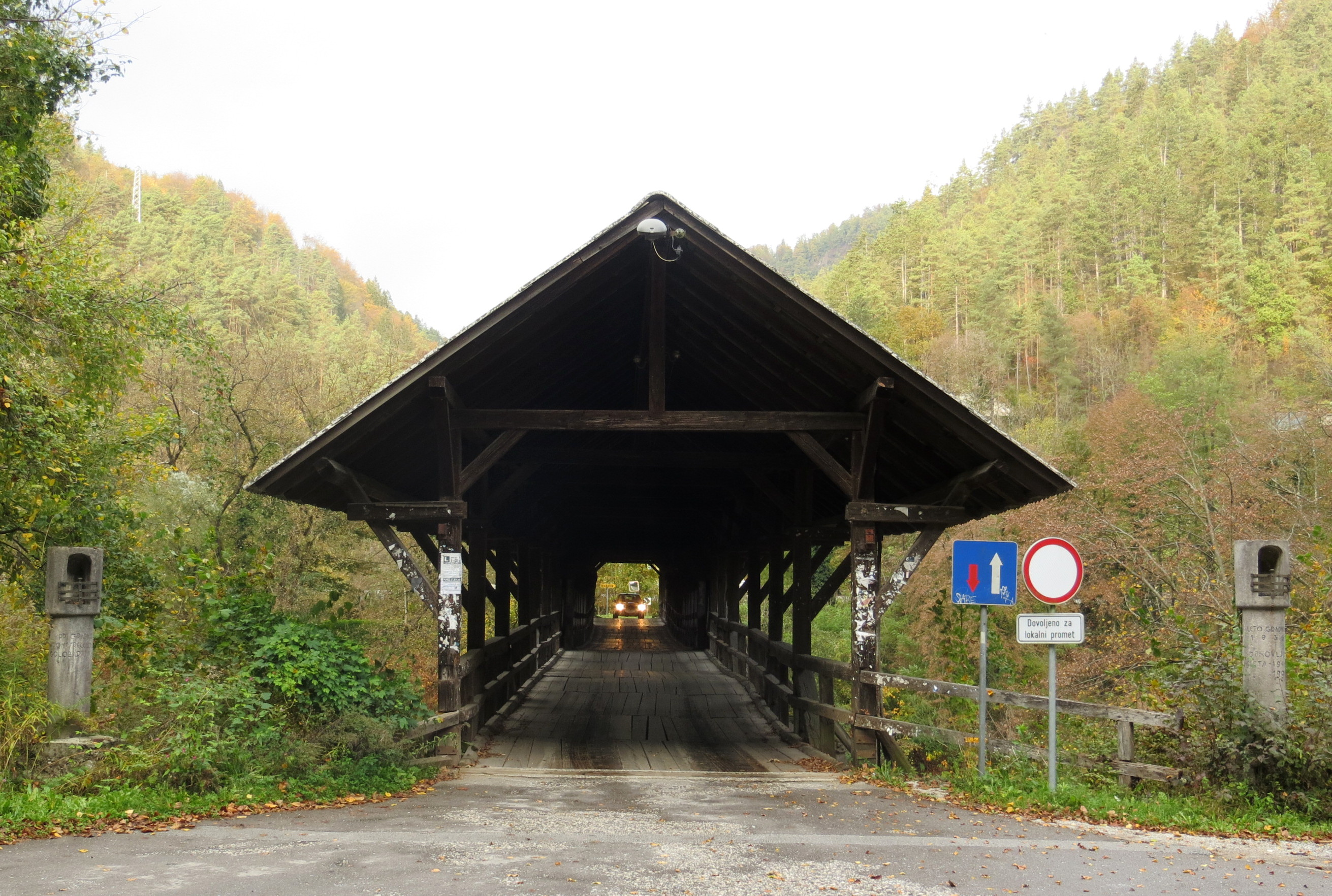 South end of the wooden bridge over the Sava River in Spodnji Log, Municipality of Litija, Slovenia